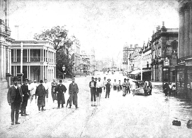 Brisbane residents at time of 1893 flood, restored photograph